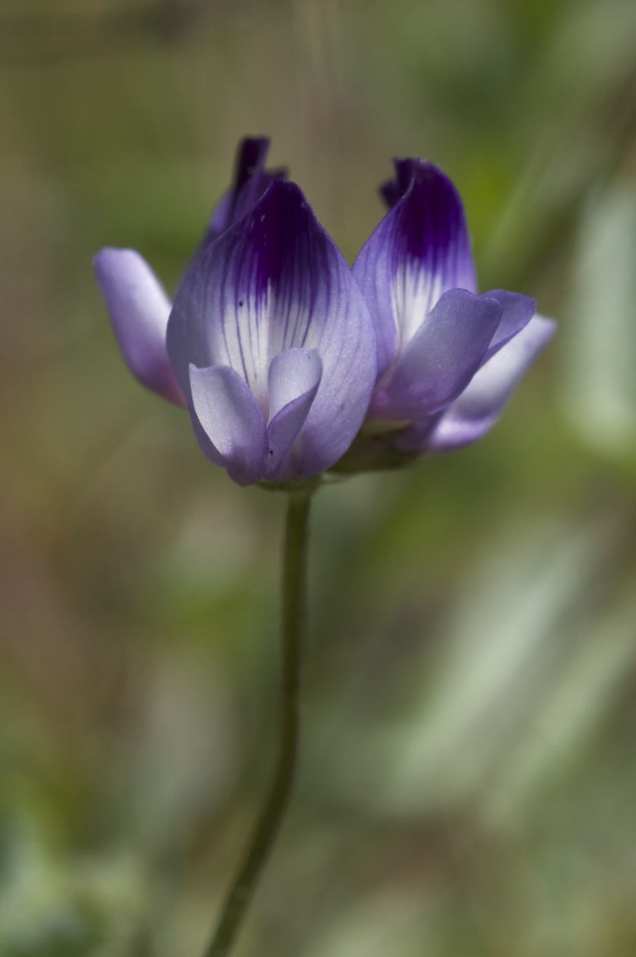 Species from California Common name: Jepson's milk vetch, Jepson's milkvetch On California Native Plant Society Inventory of Rare and Endangered Plants on list 1B.2 Photographed along Bartlett Springs Road just past the end of Brim Road, Lake County, California